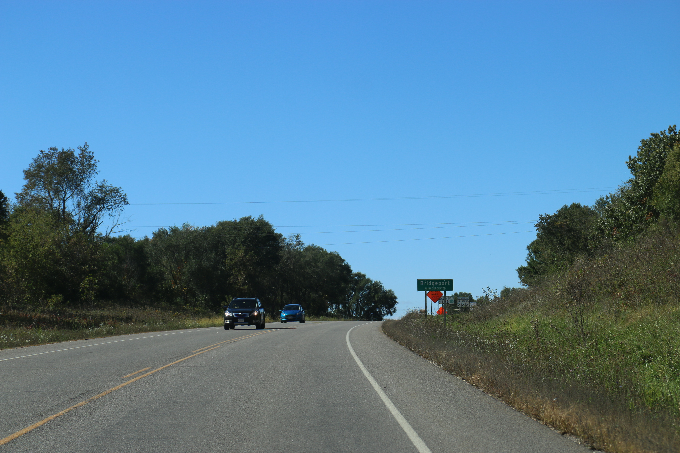 The sign for Bridgeport, Wisconsin on WIS60.